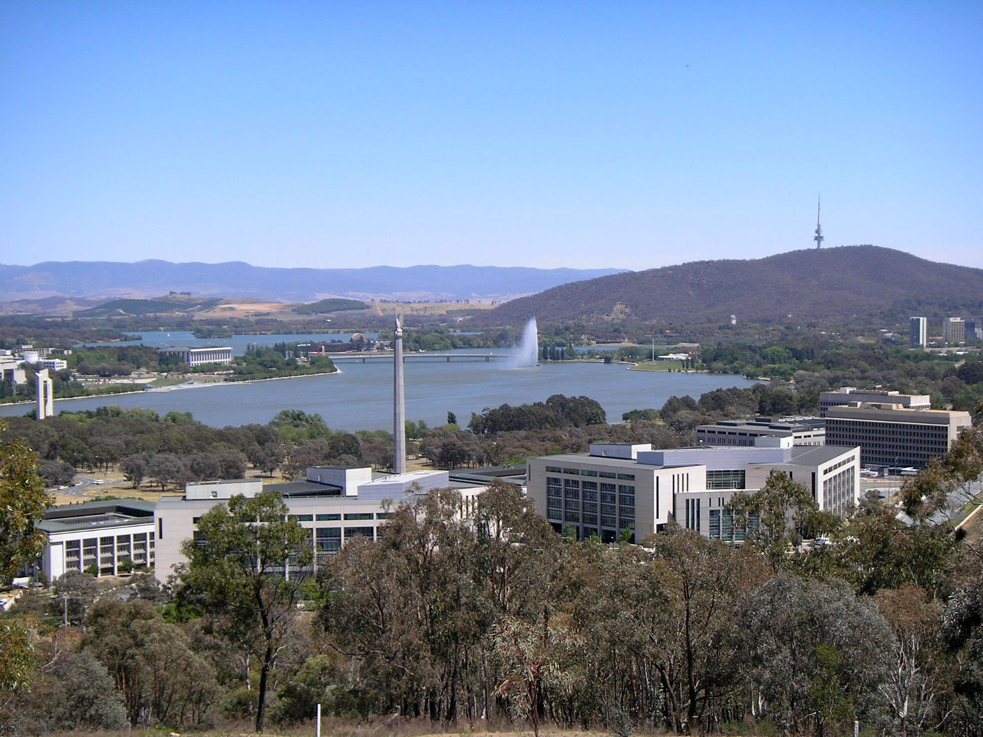 The Russell offices in Canberra viewed from Mount Pleasant